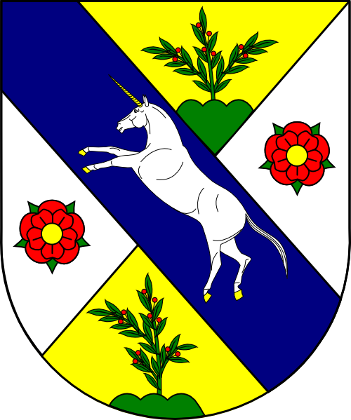 Coat of arms (shield only) of Nicolaus Olahus (Hungarian: Oláh Miklós, January 10, 1493, Sibiu – January 15, 1568, Trnava / Nagyszombat), bishop of Eger, Hungary (1548 - 1553), archbishop of Esztergom, Hungary (1553 - 1568).